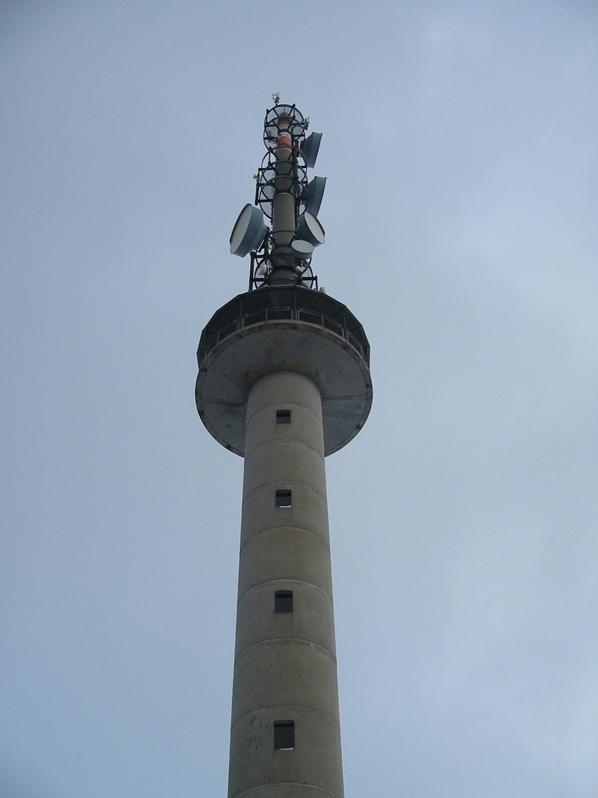 Outlook (and Cellular Network) Tower Graebersberg near Alpenrod, Westerwald, Rhineland-Palatinate, Germany.